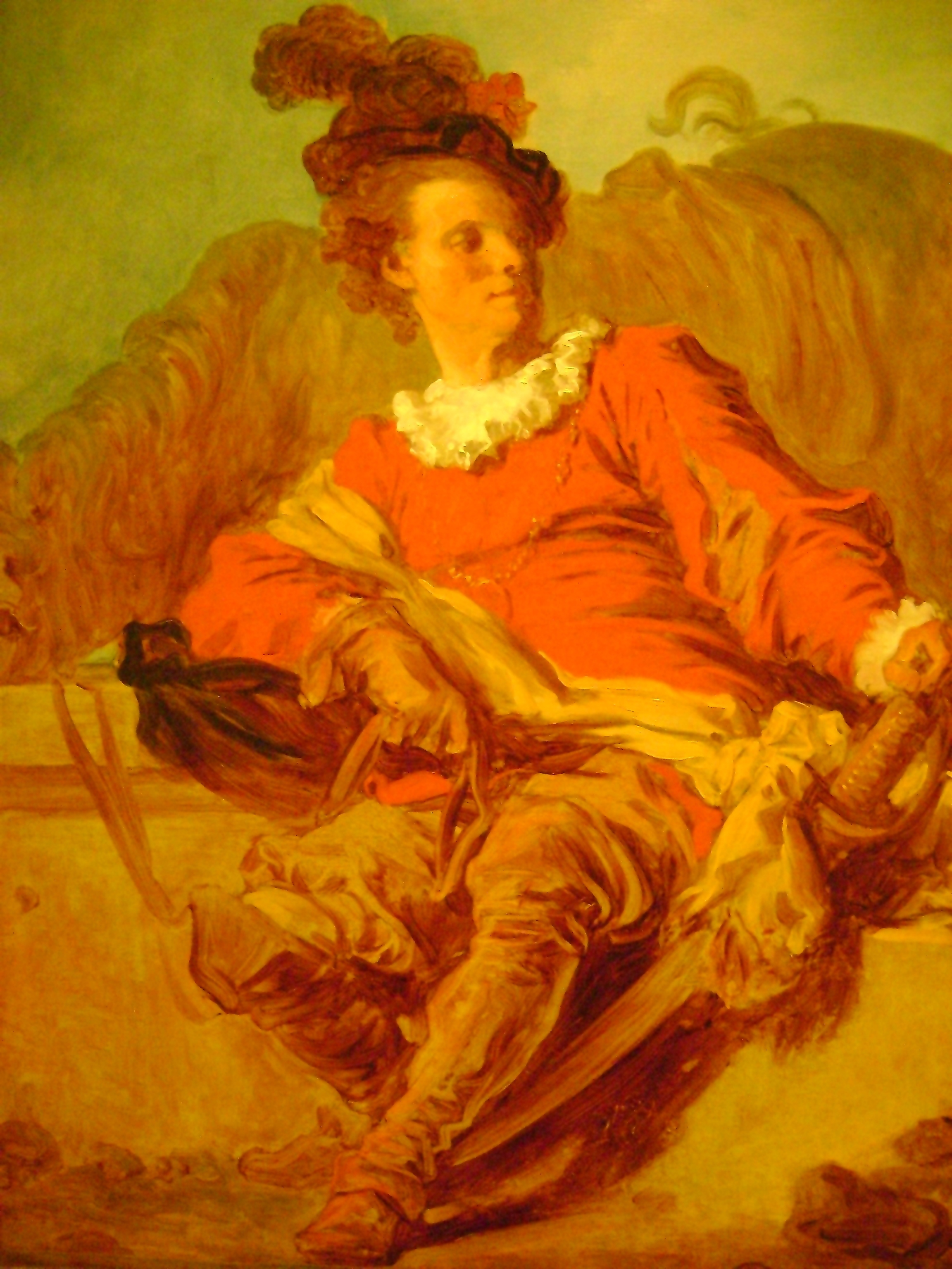 Jean-Claude Richard, l'abbé de Saint-Non, dressed in Spanish